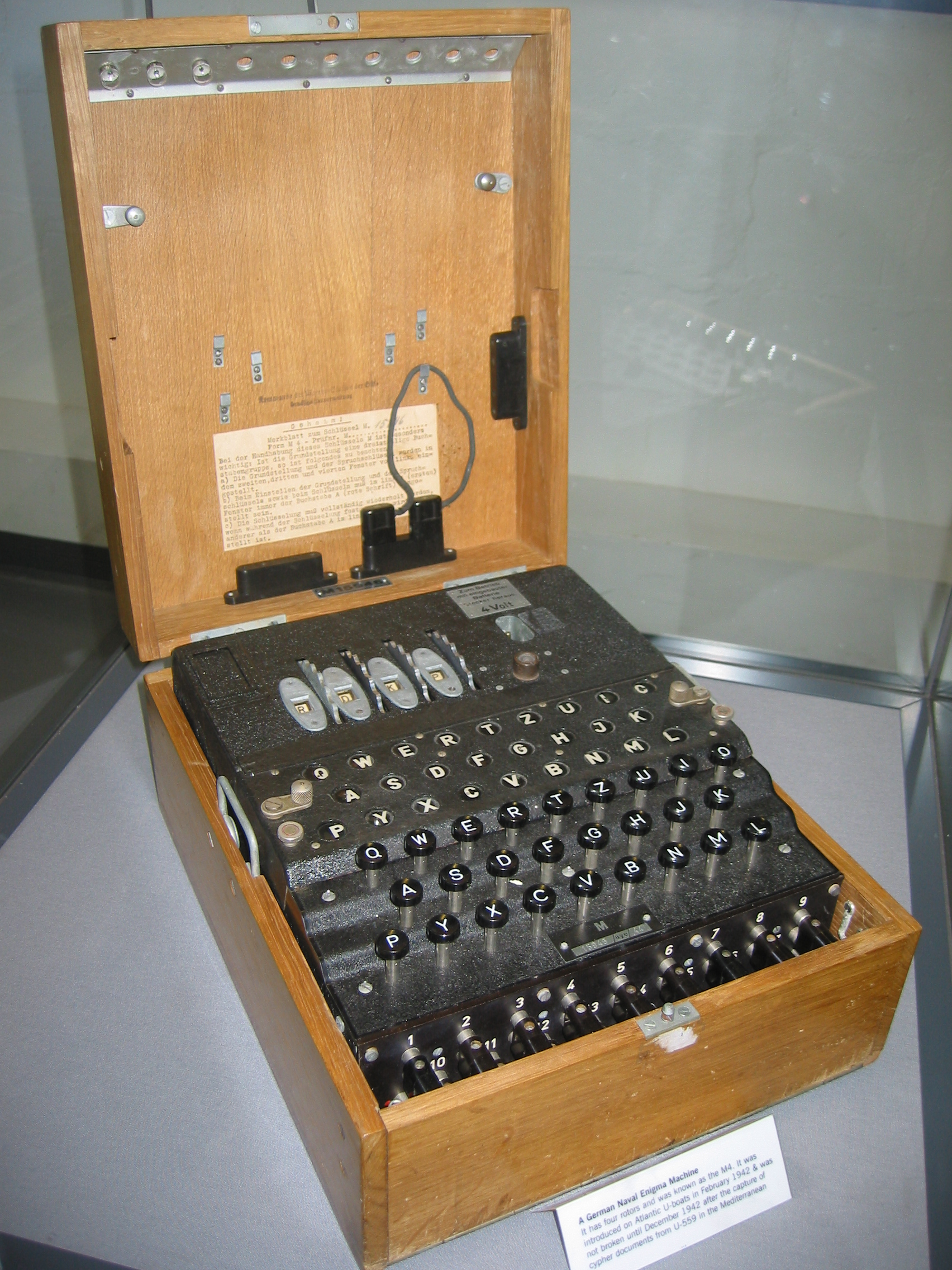 Four rotor German naval Enigma on display at Bletchley Park.